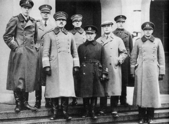 Finnish Air Force Committee (so called "Oesch Committee") in Suur-Merijoki near Viipuri on 13 November 1931. Lennart Oesch (third on the left), Väinö Vuori (right of Oesch) and Per Zilliacus (back of Oesch).